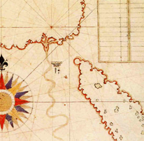 Detail of the Kitab-ı Bahriye (1521-1525) by Piri Reis